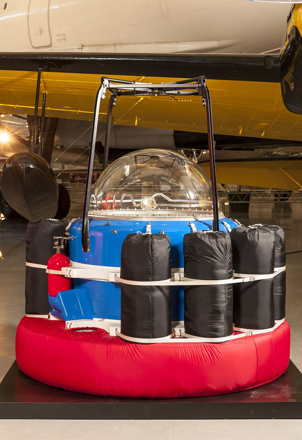 Julian Nott ICI Innovation Balloon Gondola (T20140064000) on exhibit at the Steven F. Udvar-Hazy Center, National Air and Space Museum. [BreitlingOrbiter-Julian Nott-3-11-2015_0008]. The cabin measures 6‘10” across the propane tanks, and stands 8’4” tall from the base to the top of the load structure. It is constructed of fiberglass with carbon epoxy reinforcing in key areas, and honeycomb structure for the hatch and floor. The overhead load frame is metal. The total weight is 300 pounds. The cabin is circular with a load frame on top. It is fully furnished as it was for the record flight and comes complete with flight suits, and loose items stowed in the cabin for use during the flight.